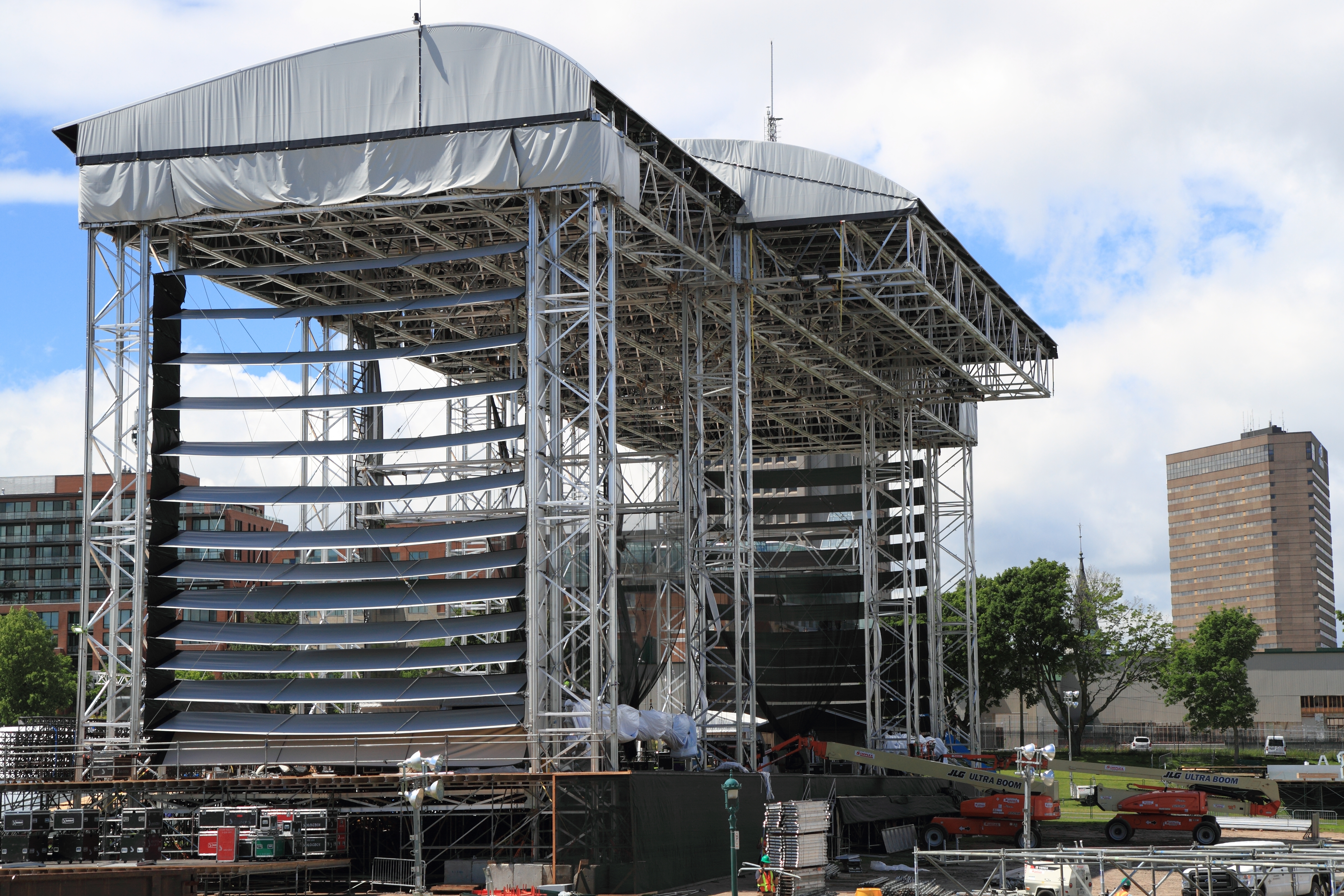 Stage on the Plains of Abraham for the Quebec City Summer Festival 2013 designed by Unissons Structures firm. Dimensions: 256 feet wide, 90 feet high, 88 feet depth.